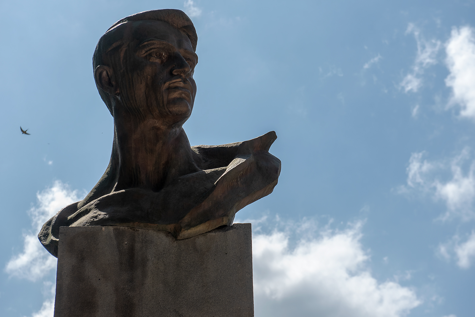 Bust of Yenok Mkrtumyan in Yenokavan village, Tavush